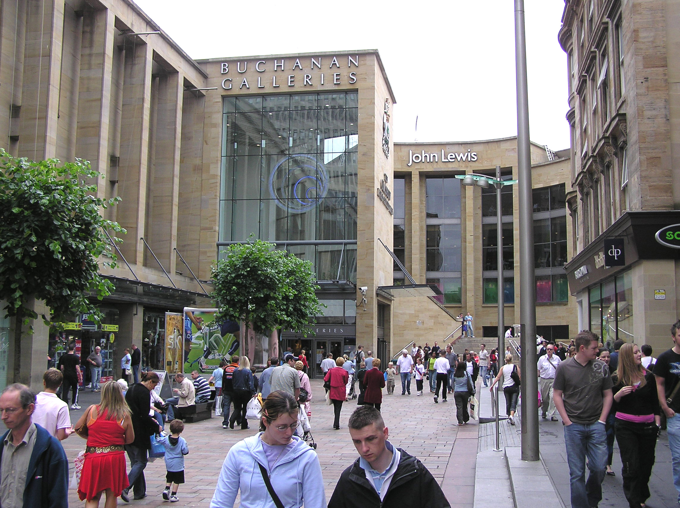 The north end of Buchanan Street in Glasgow, Scotland, looking east from Sauchiehall Street. The building on the left combines the Buchanan Galleries shopping centre (including a branch of retailer John Lewis) and the Royal Concert Hall.